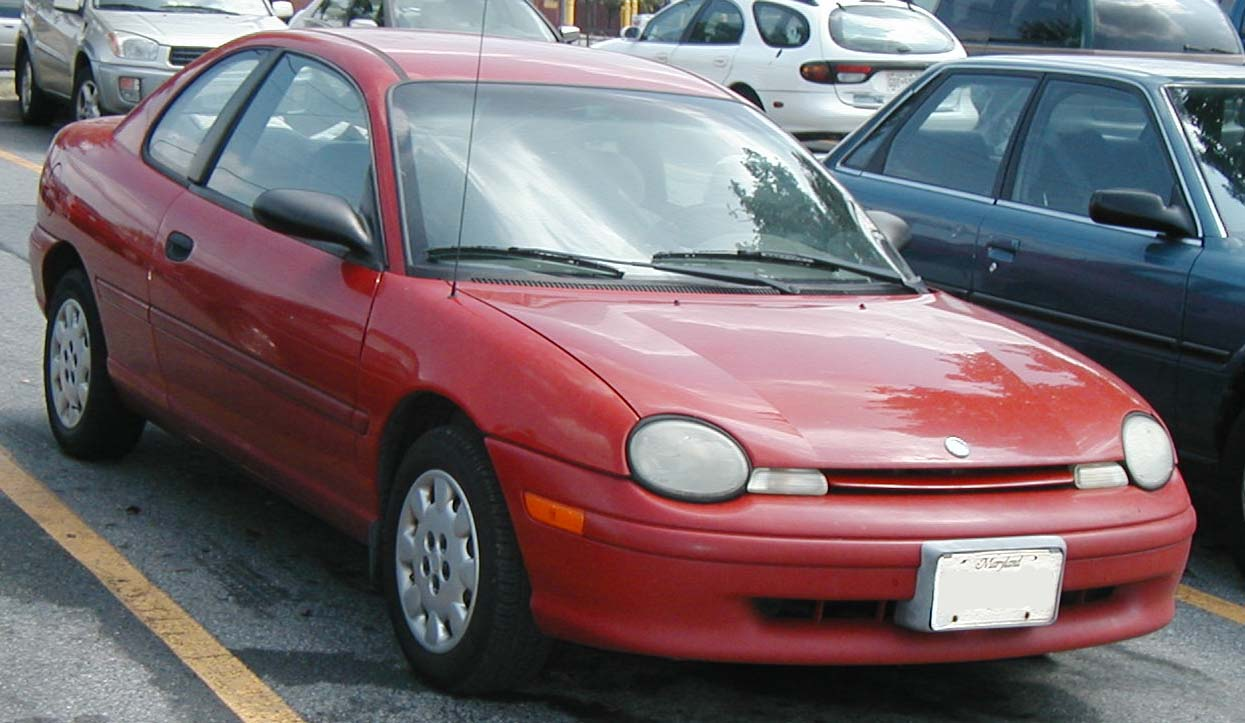 1995-1999 Plymouth Neon coupe photographed in USA.